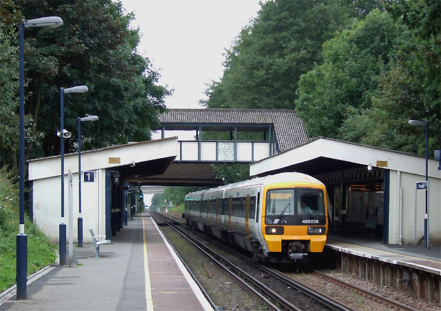 Falconwood Station east of Eltham Falconwood Station opened after the rest of the Bexleyheath line on January 1, 1936. It is noticeable that electrical power is still picked up from power lines on the ground (the centre two in the image) in this quarter of the London commuter belt, rather than from wires above.